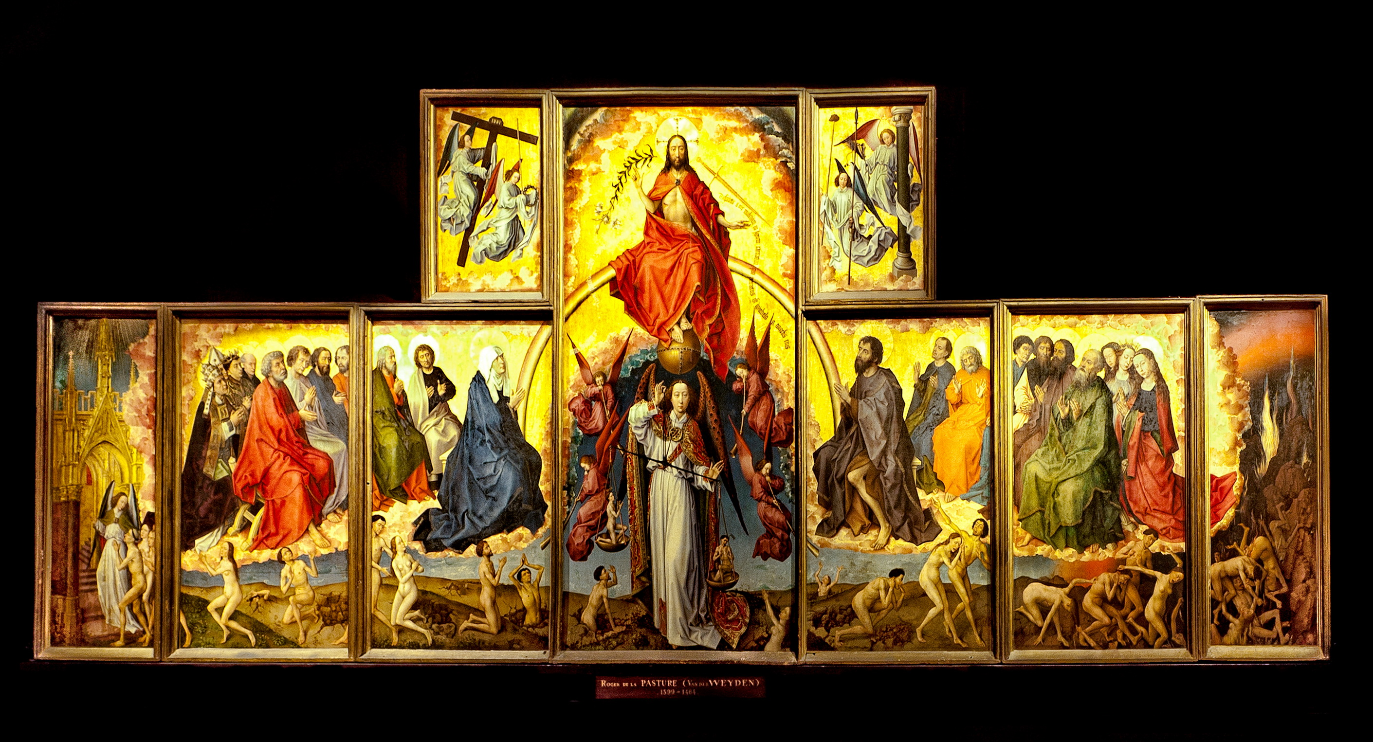 "Last judgment" polyptyc (1445–1450), by Van Der Weyden . Oil on oak panel. Photo taken in the Hôtel-Dieu of Beaune (France)